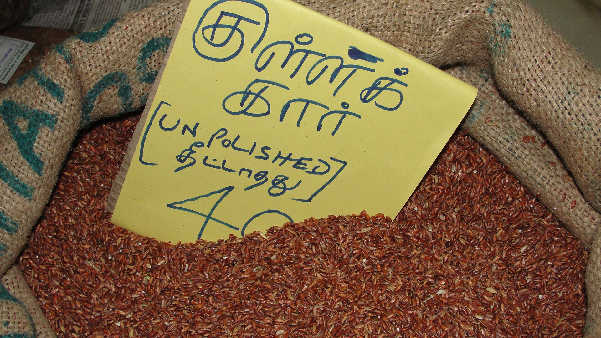 A Kulla Kar Rice